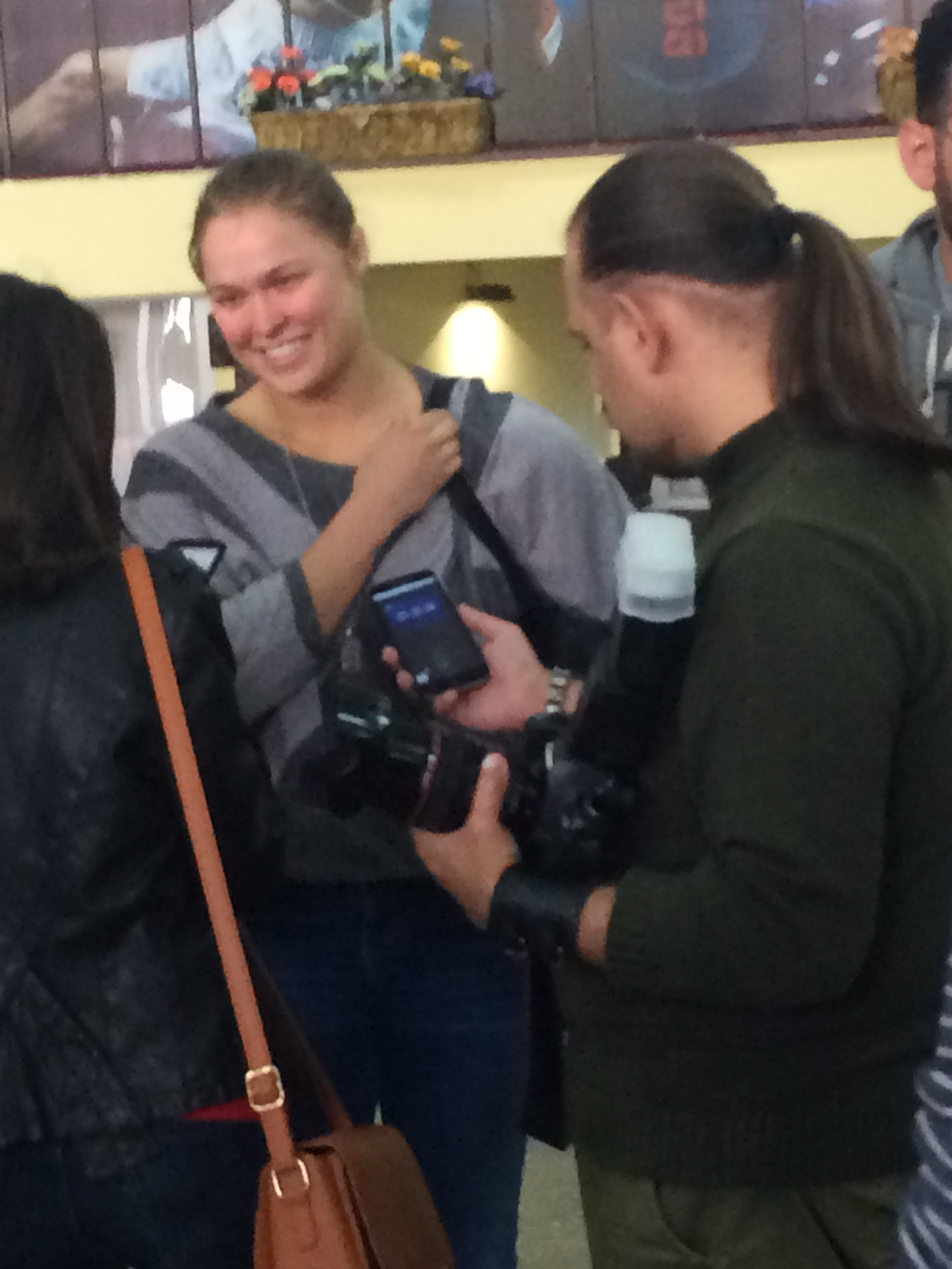 Ronda Rousey after her open workout at Dinamo center, Yerevan, Armenia.